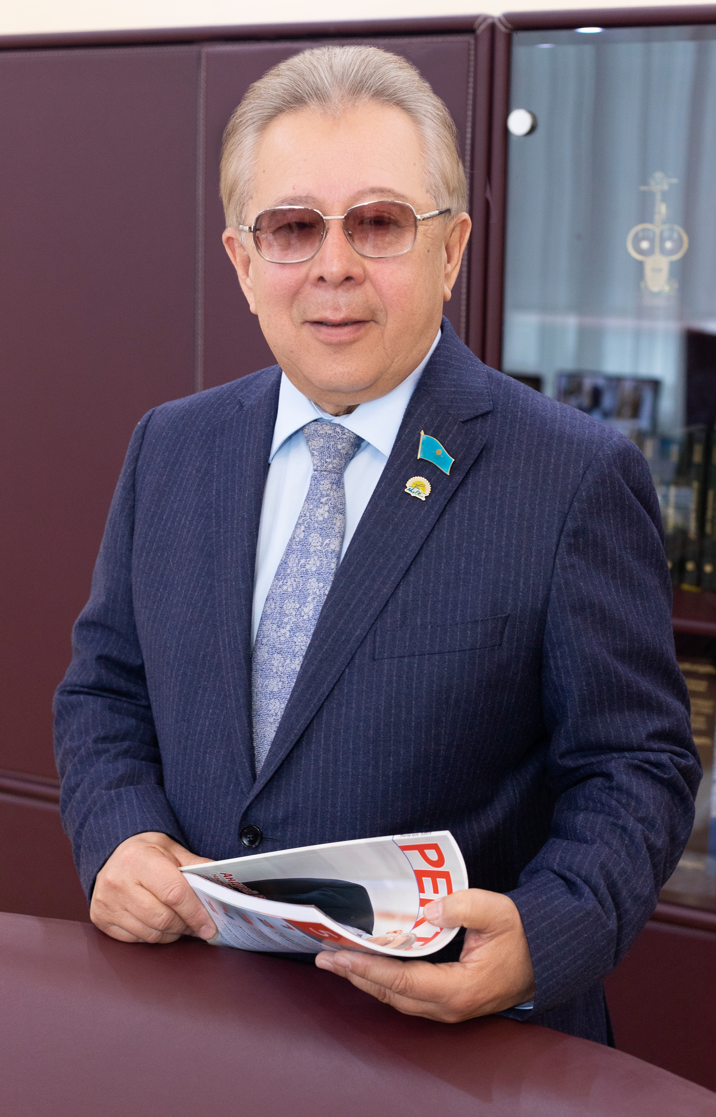 Rector of D. Serikbayev EKSTU